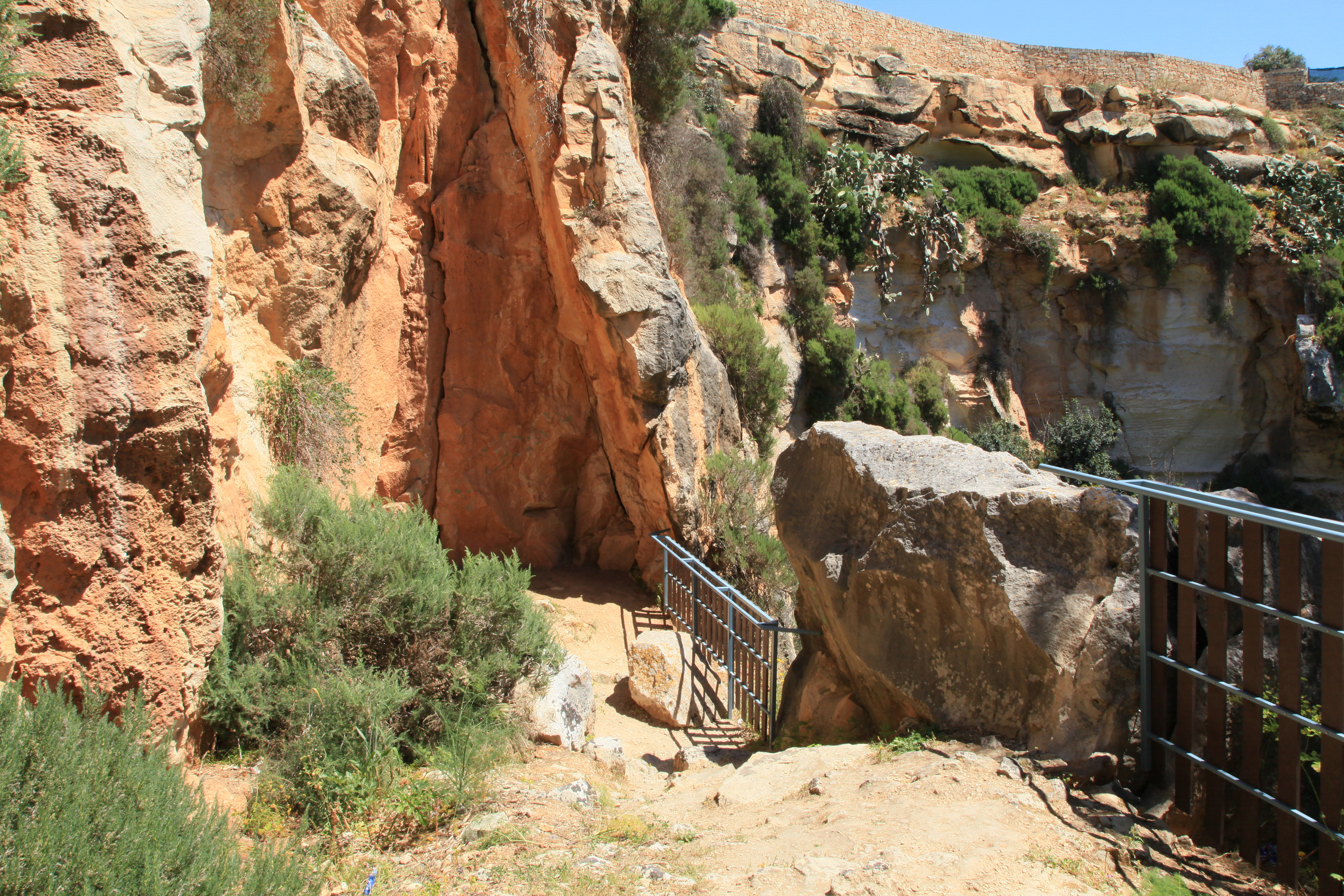 Il-Maqluba, Misraħ tal-Maqluba in Qrendi, Malta